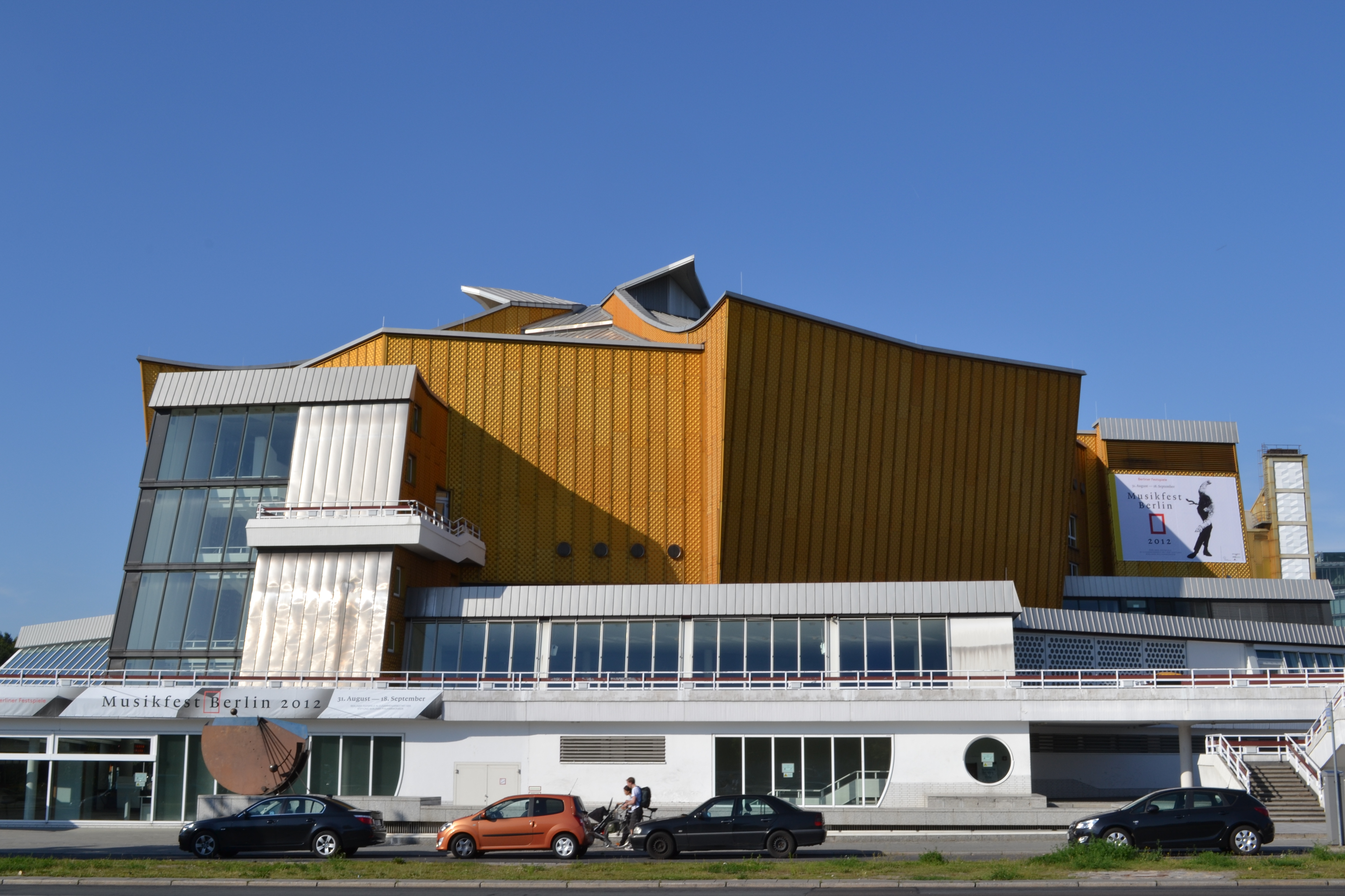 Kammermusiksaal, near the home to the Berlin Philharmonic Orchestra, the building is acclaimed for both its acoustics and its architecture.